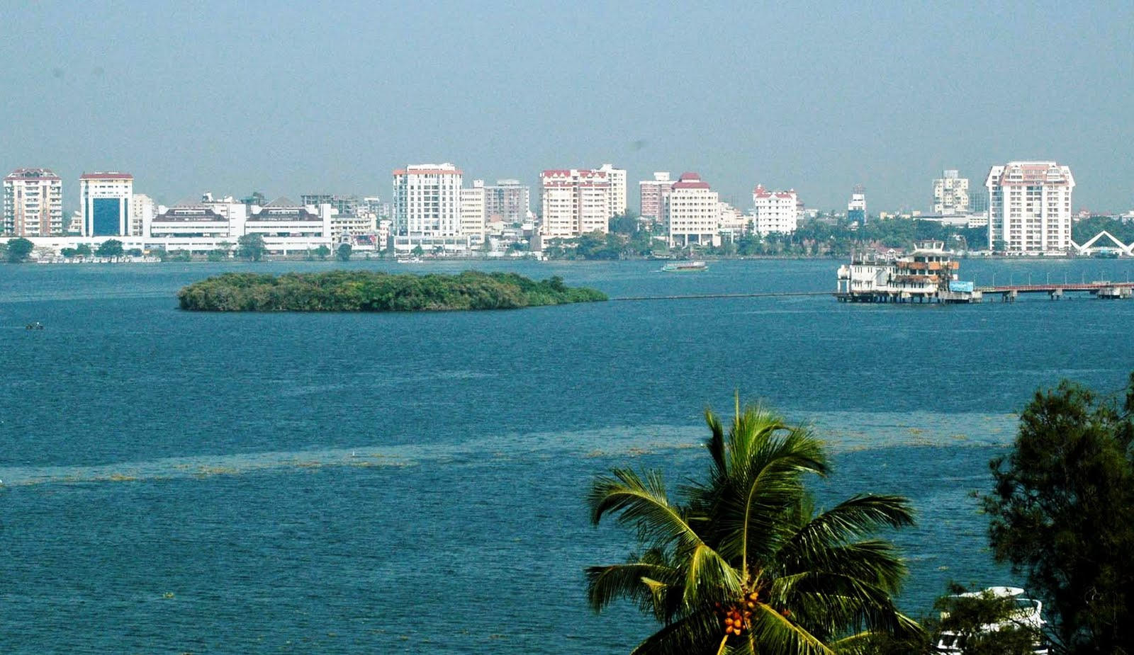 Kochi